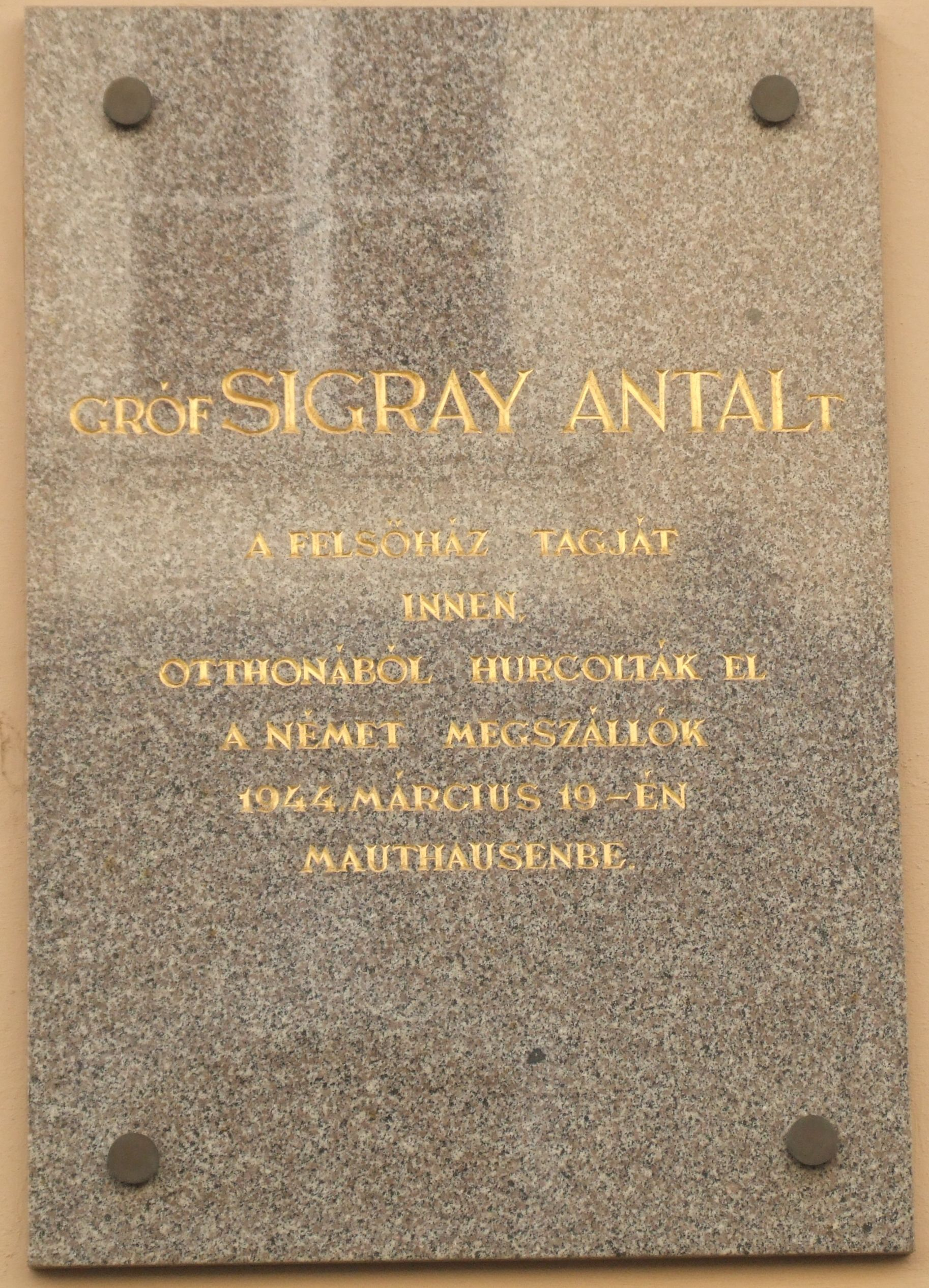 Antal Sigray commemorative plaque in Budapest District I, Úri Street No 60